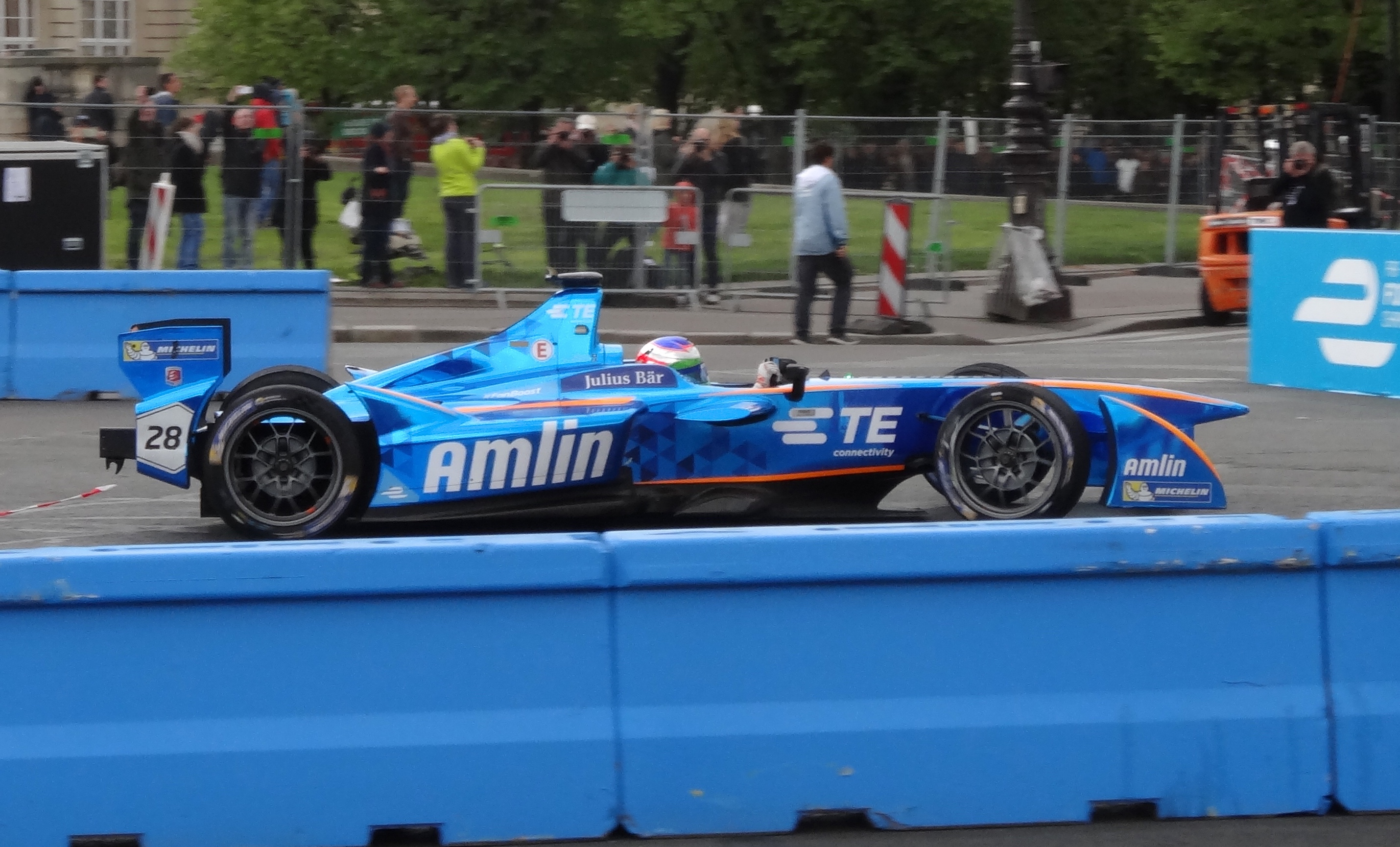 Simona de Silvestro Formula E